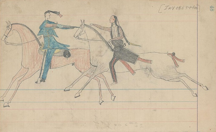 Anonymous ledger drawing of an Arapaho warrior fighting a U.S soldier on horseback. ca. 1880